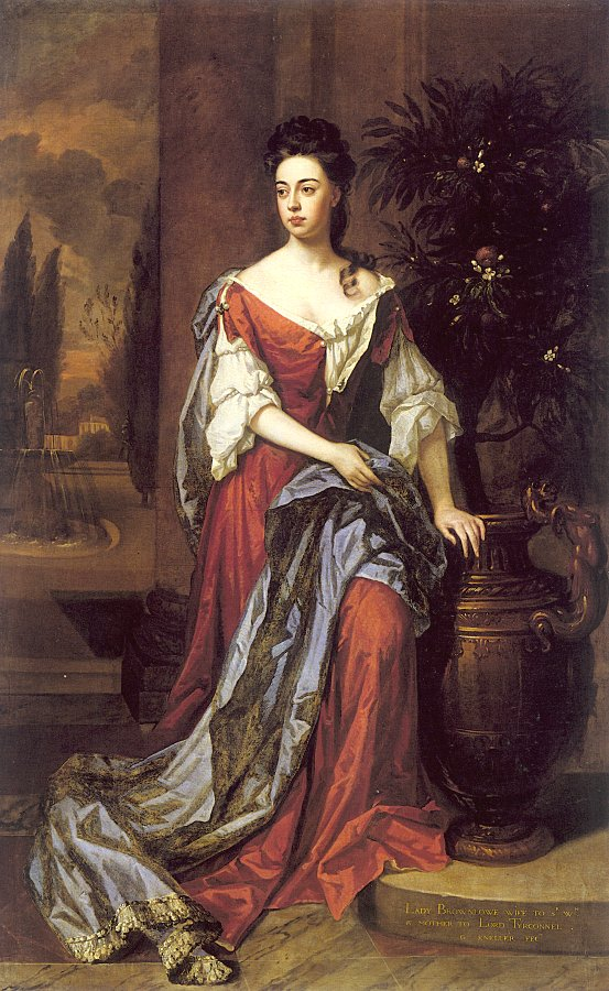 1685 portrait by Godfrey Kneller of Dorothy Mason (d.1700), first wife of Sir William Brownlow, 4th Baronet (1665-1701) of Belton House near Grantham in Lincolnshire. She was the eldest daughter and co-heiress of Sir Richard Mason (c.1633-1685), MP, and a granddaughter of Sir James Long, 2nd Baronet. By Dorothy he had one son and heir: John Brownlow, 1st Viscount Tyrconnel, 5th Baronet (1690-1754), who in 1718 was raised to the Peerage of Ireland as Viscount Tyrconnel.